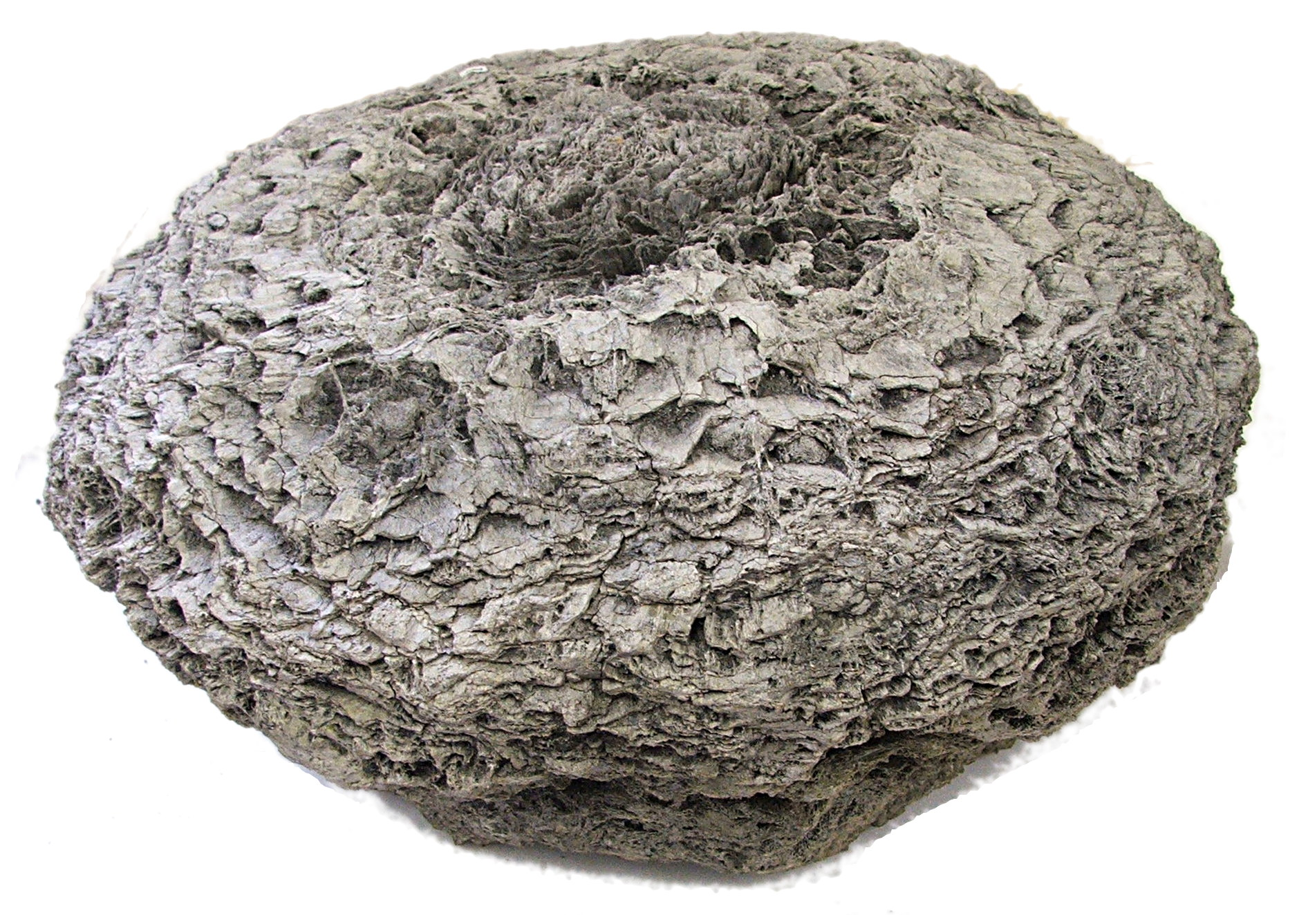 Bennettiales from the Sedgwick Museum's collection. Note the reproductive structures embedded amongst the leaf bases. A "pineapple-like" set of leaves would have emerged from the top.